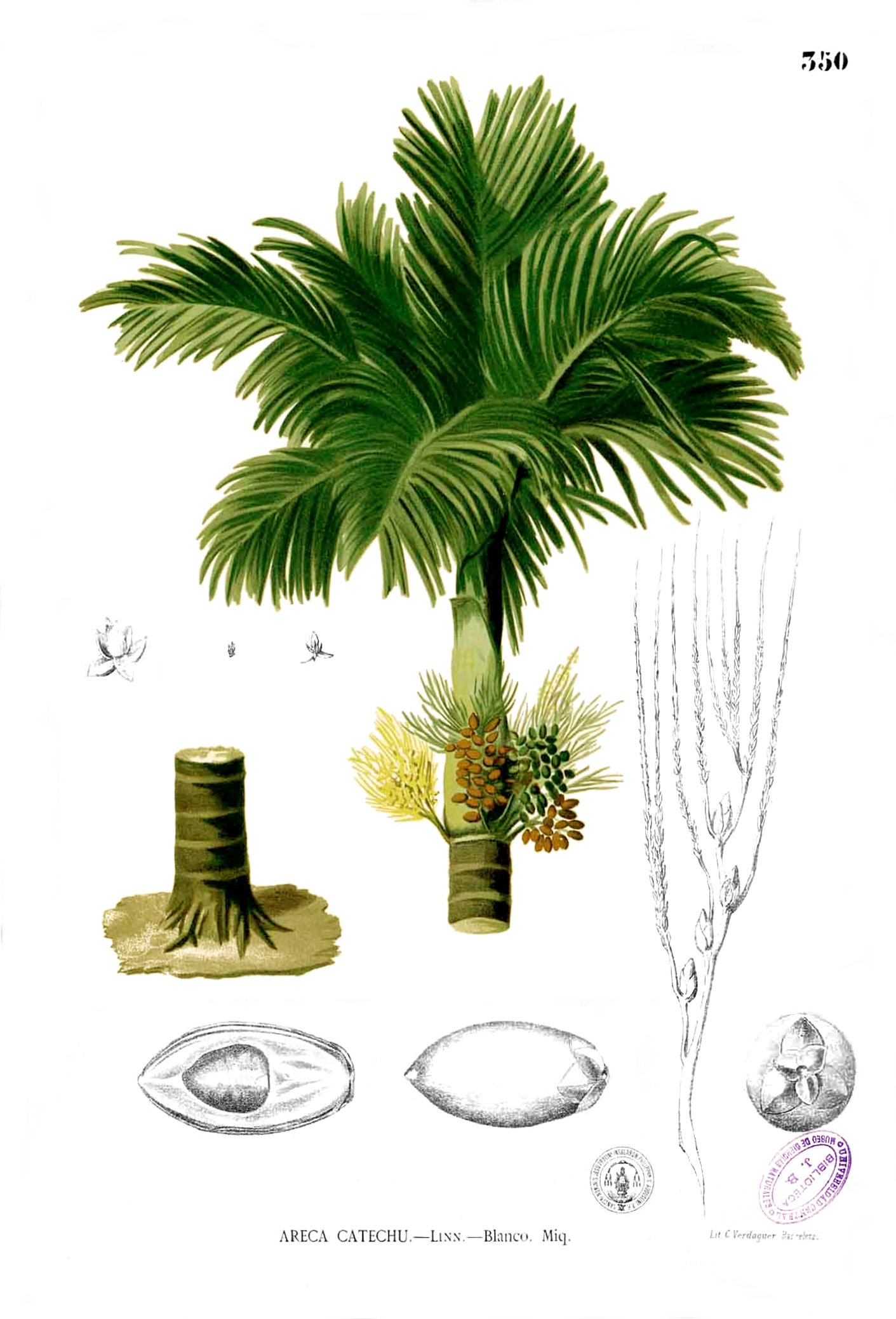 Plate from book